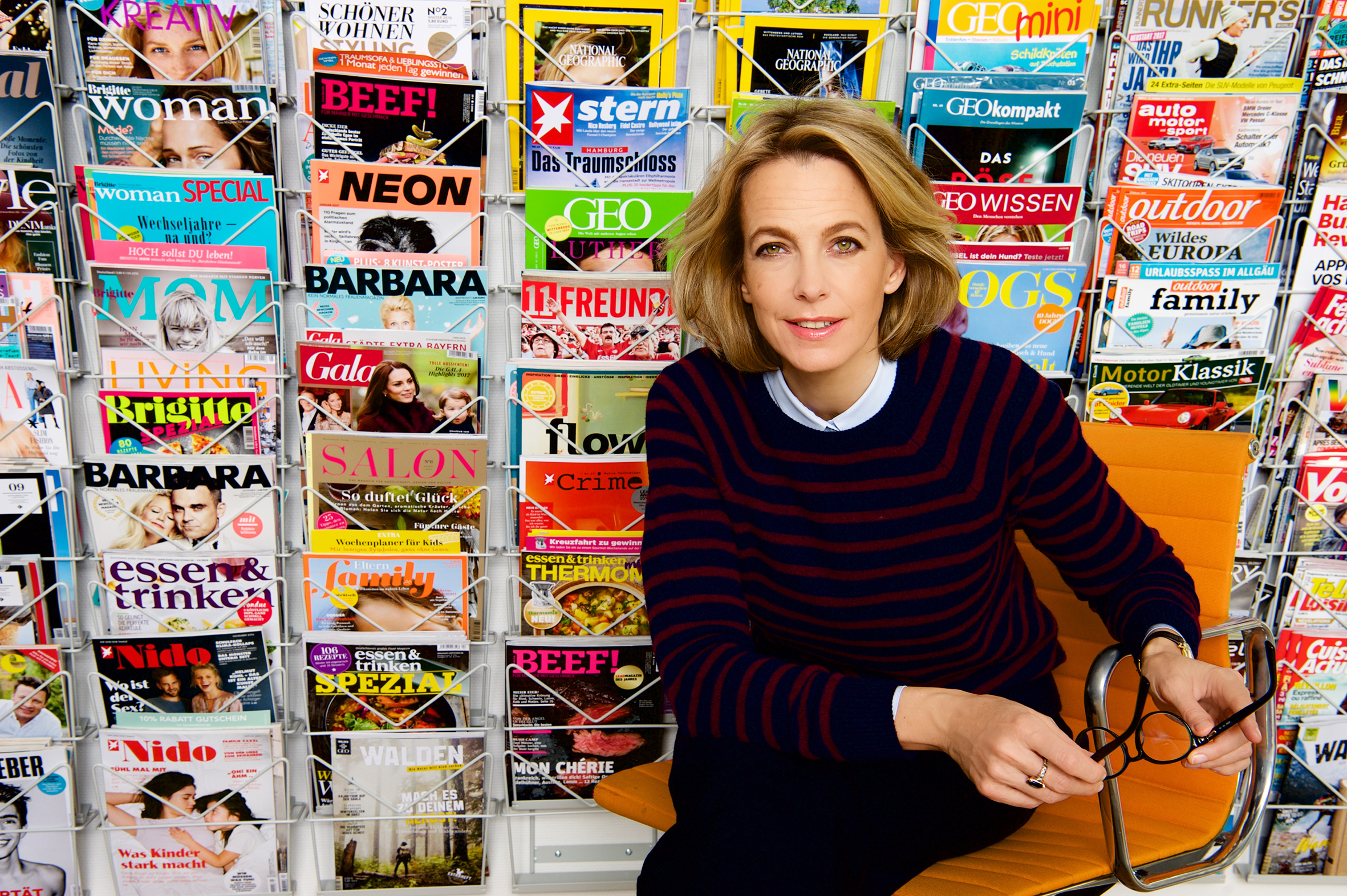 Portrait of Julia Jäkel